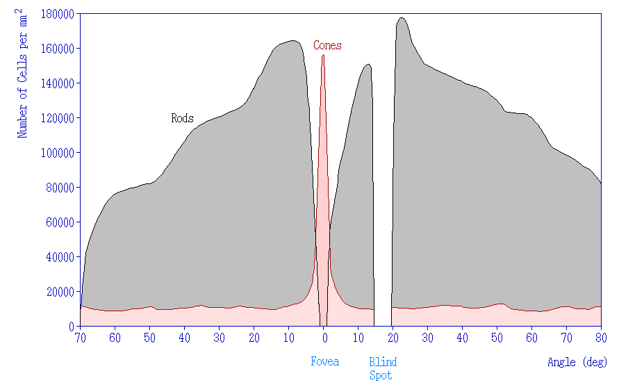 Shows the density of cone and rod cells for a horizontal slice through a human left eye (through fovea and blind spot), depending on the distance (angle in degrees) from the fovea center. Data taken from p.104 of the book "Allgemeine Psychologie - Eine Einführung" (General Psychology - An Introduction), C. Becker-Carus 2011, Springer. - Meanwhile, I recommend to use the File:Human photoreceptor distribution.svg instead, which conveys the same information, but looks nicer, and is a vector graphic; JB.